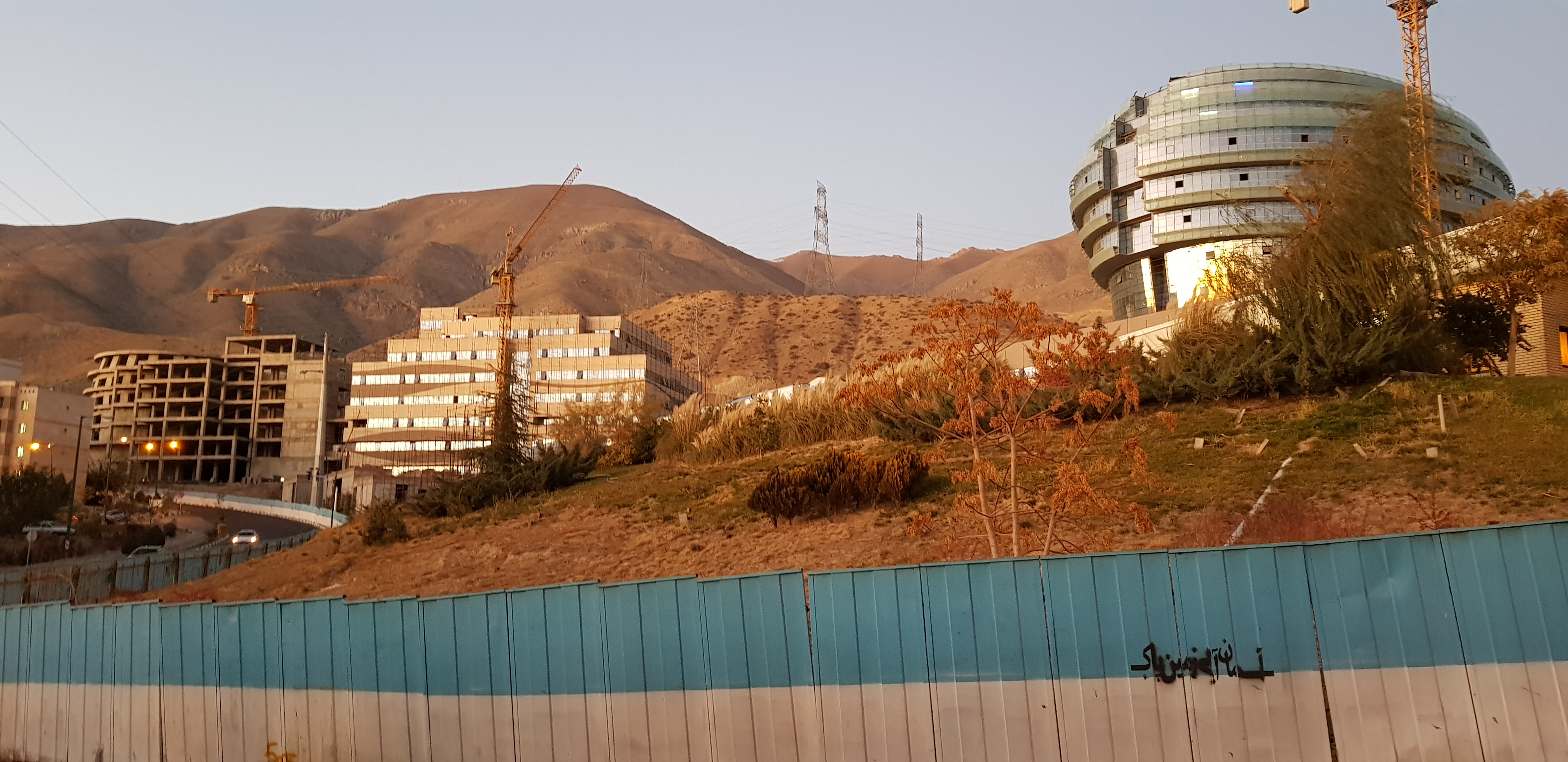 Iran INI